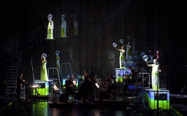 KEIN LICHT - Production Opéra Comique 2017 photo: Vincent Pontet ( Compositeur : Philippe MANOURY - Livret : Elfriede JELINEK - Direction musicale : Julien LEROY - Mise en scene : Nicolas STEMANN - Scenographie : Katrin NOTTRODT - Costumes : Marysol del CASTILLO - Lumieres : Rainer CASPER - Video : Claudia LEHMANN - Avec : Sarah MARIA SUN (Soprano) - Olivia VERMEULEN (Mezzo-soprano) - Christina DALETSKA (Contralto) - A l Opera Comique le 17 10 2017 - Photo : Vincent PONTET